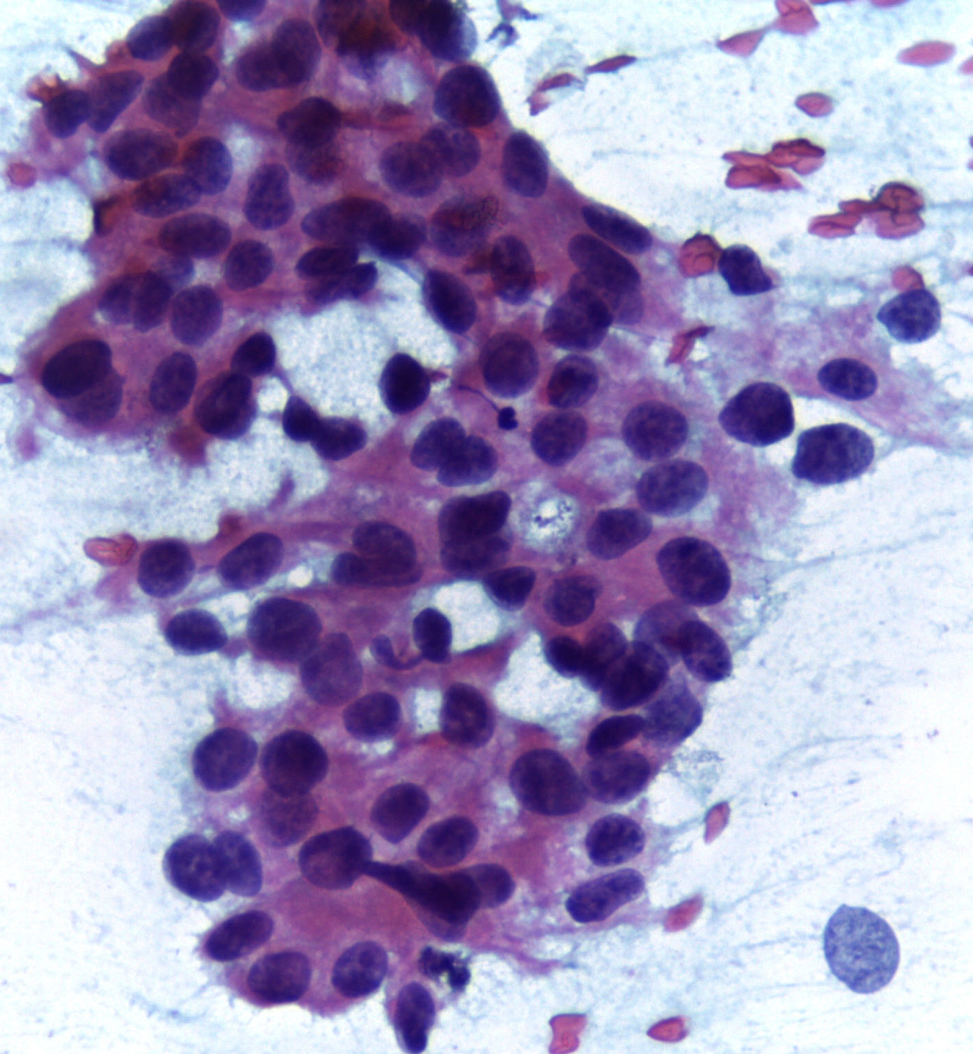 Atypical cells with moderate amount of eosinophilic cytoplasm and round to oval dark nucleus with moderate pleomorphism (Papanicolaou, 400X)